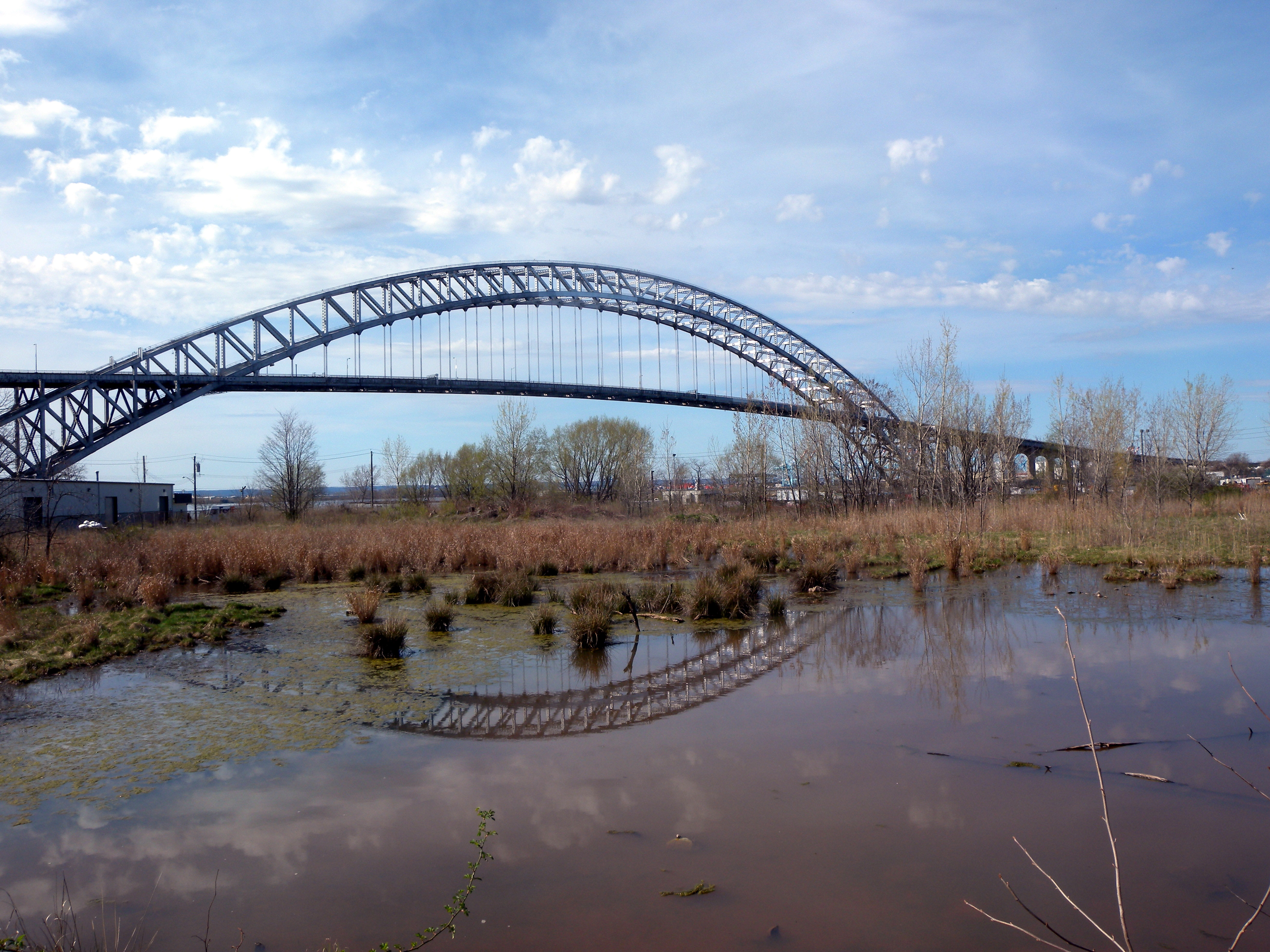 Looking northwest from SIR embankment west of Nicholas Avenue, at Bayonne Bridge reflected in pond, on a sunny early afternoon.